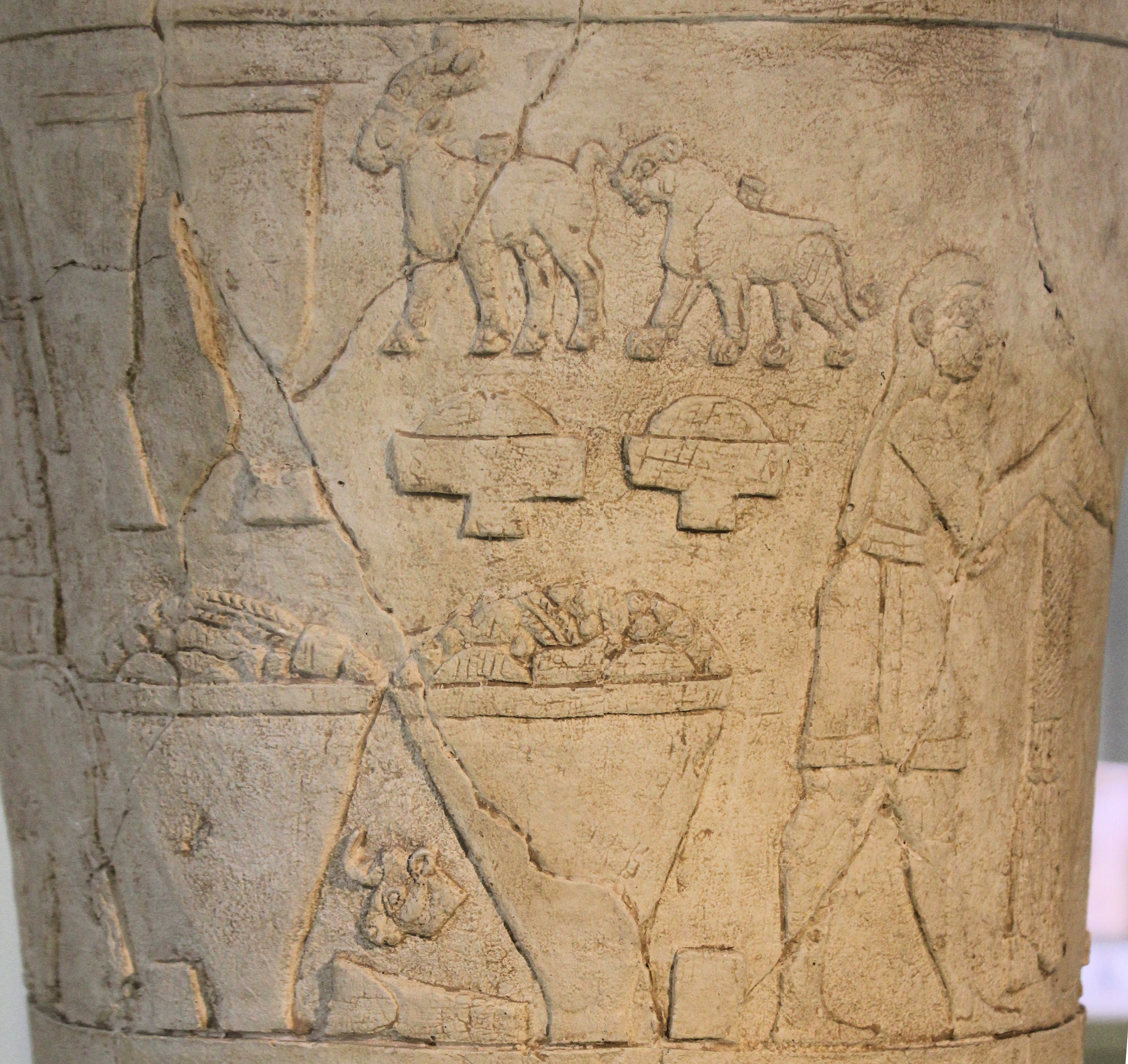 Wardak vase detail